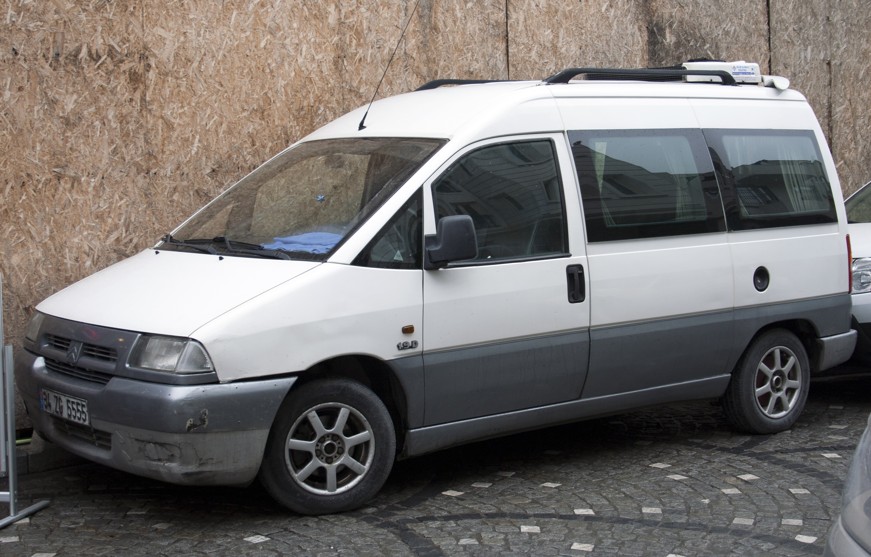 Citroën Jumpy 1.9D glazed van version in Istanbul. This model has more permanent glazing than did Jumpy Combis in other countries, and is generally more comfortable inside. I cannot find any solid info, but it seems like a half-way step to the proper Evasion minivan, especially made for less wealthy markets. Looks like an aftermarket air conditioning unit on the roof.